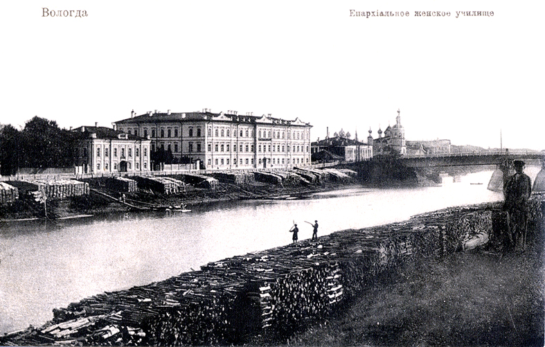 Vologda eparchial women's school.